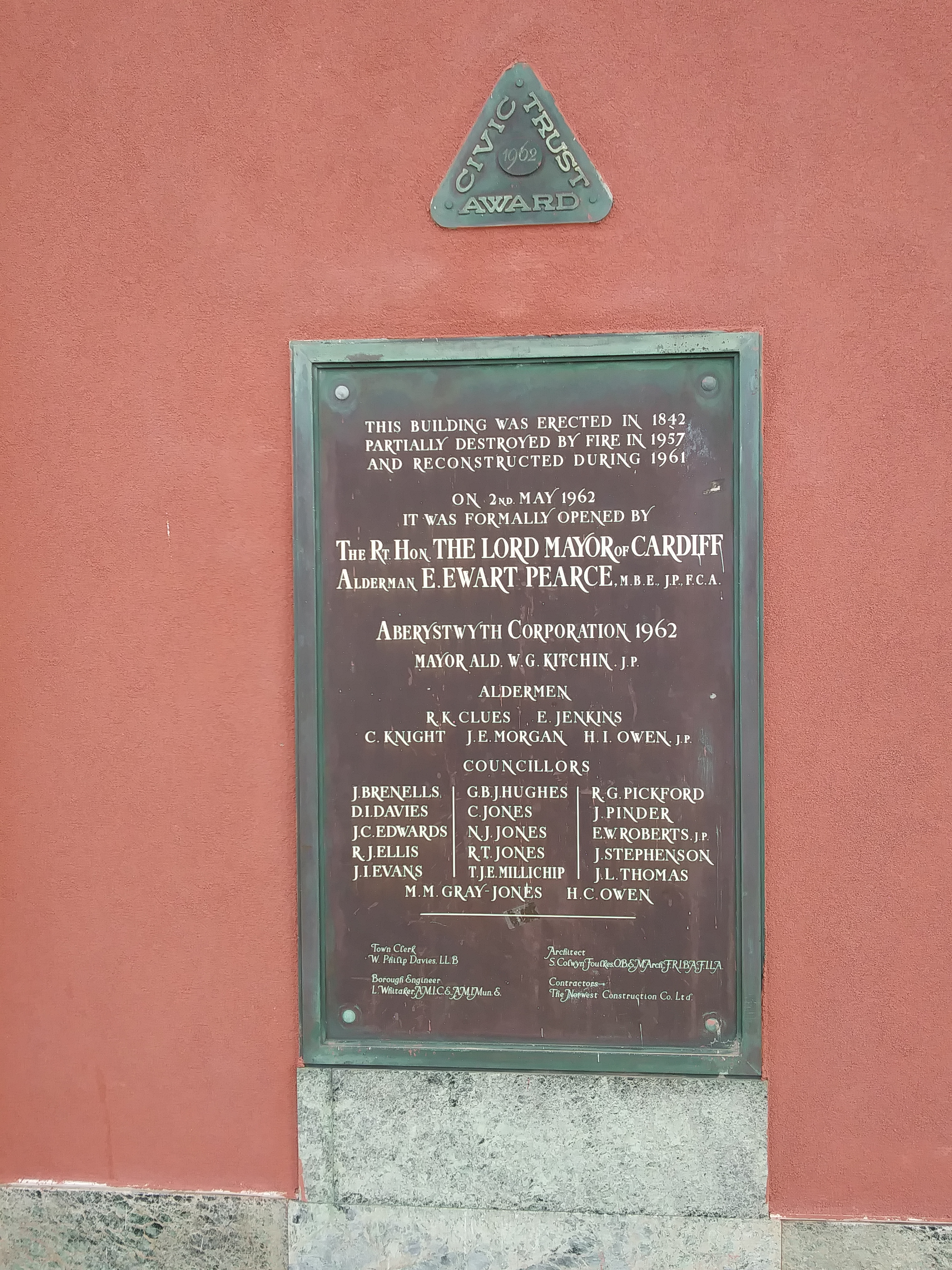 Canolfan Alun R Edwards Aberystwyth, Civic Trust Award plaque